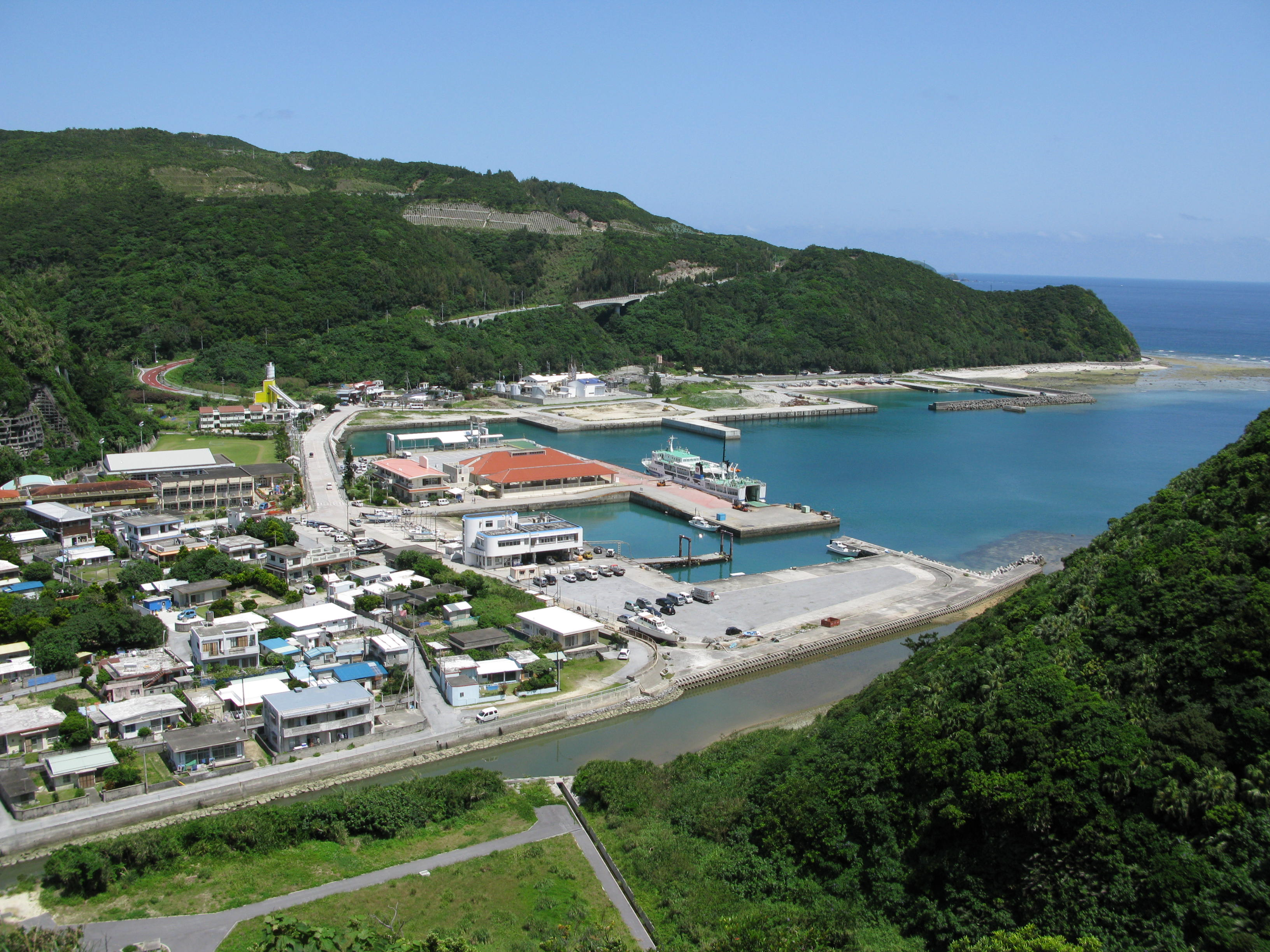 The harbour in Tokashiki, Okinawa